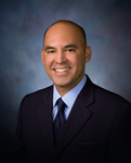 Gregory Salcido, California politician